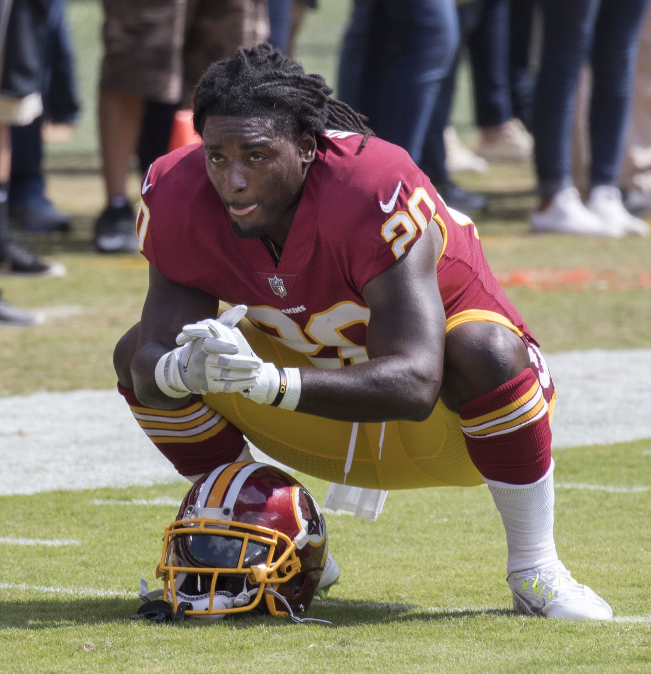 Washington Redskins running back, Rob Kelley, stretching before a game against Philadelphia Eagles on September 10, 2017.